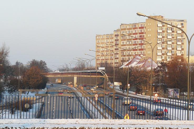 Niestachowska Way in Poznan.